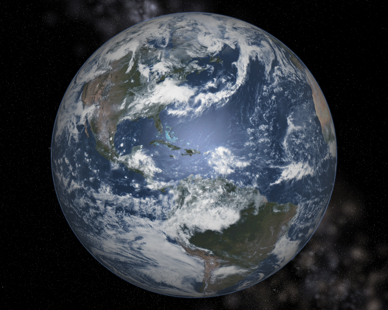 Screenshot of Celestia free software.